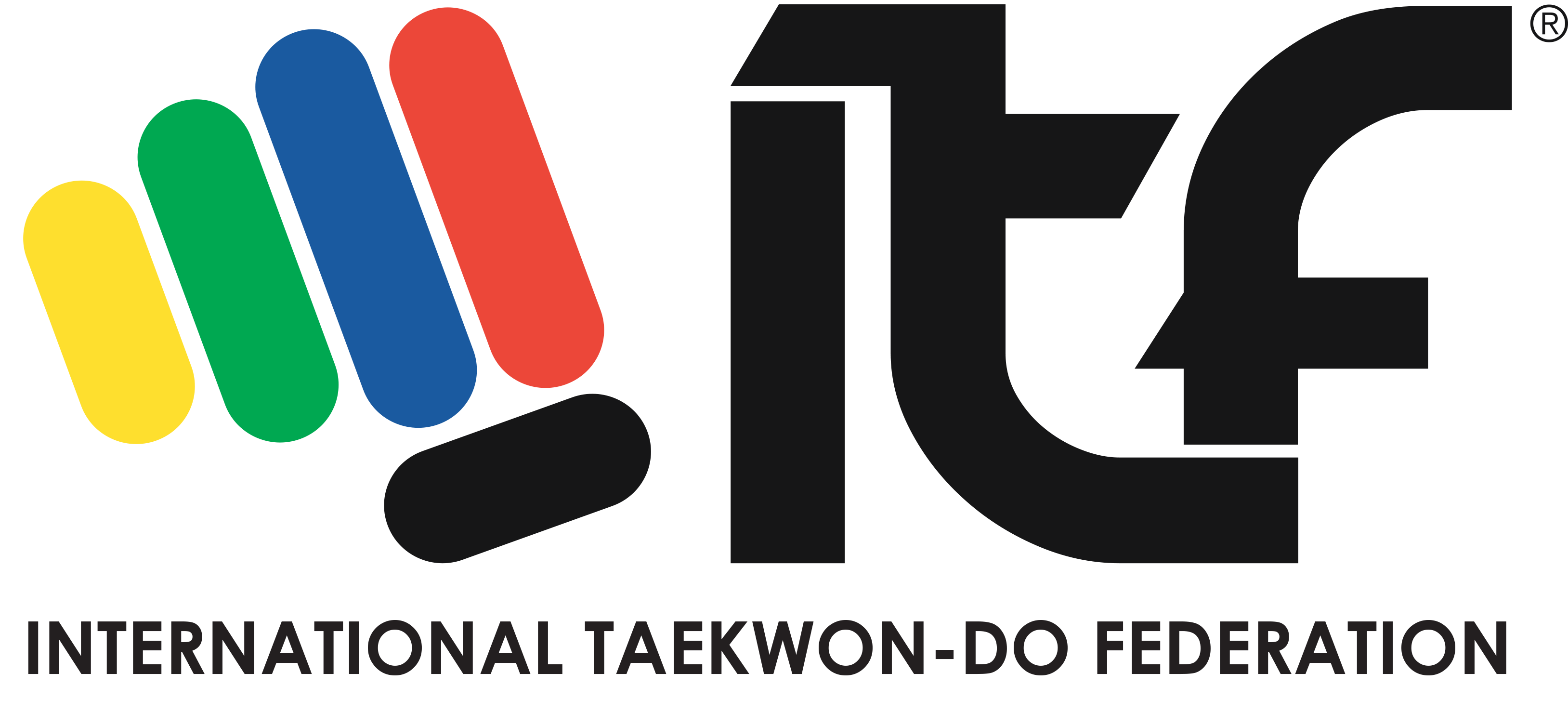 This is the new logo of the International Taekwon-Do Federation. The old logo is still in use but the new is used as a brand.